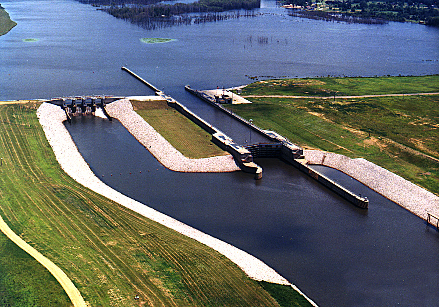 Amory Lock, formerly called Lock A, on the Tennessee-Tombigbee Waterway, Amory, Mississippi, USA. View is upriver to the northeast.